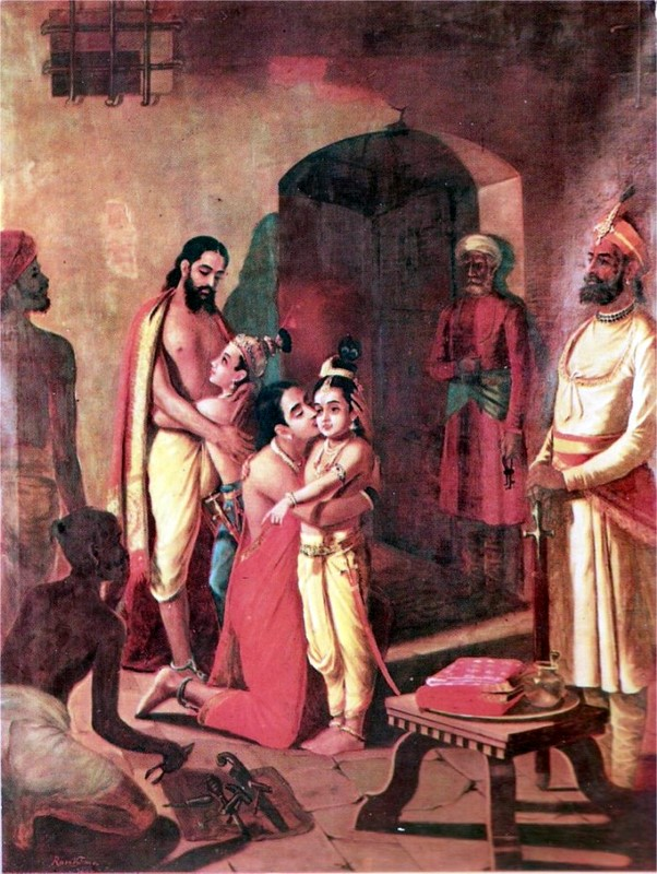 Krishna and Krishna's elder brother Balarama freeing their parents after killing his uncle Kamsa who had jailed their parents.